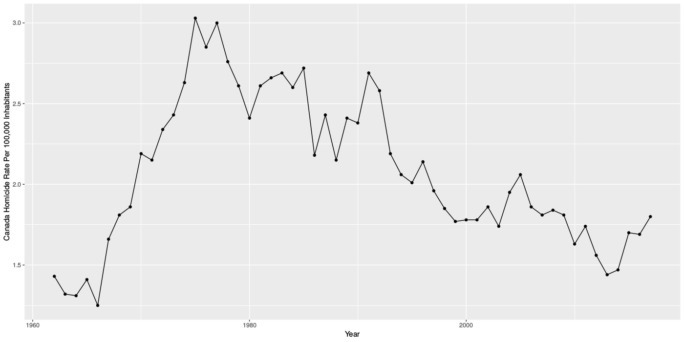 Data from and Analyzed and plotted using the following R script library(ggplot2) vc = read.csv("ViolentCrime", skip=3, sep="\t", header=F)[,1:4 ] pdf(width=14) ggplot(data=vc, aes(x=V1, y=V2)) + geom_line + geom_point + xlab("Year") + ylab("Canada Homicide Rate Per 100,000 Inhabitants")